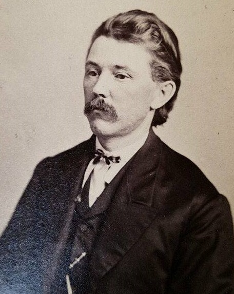 Elizur H. Prindle (New York Congressman)